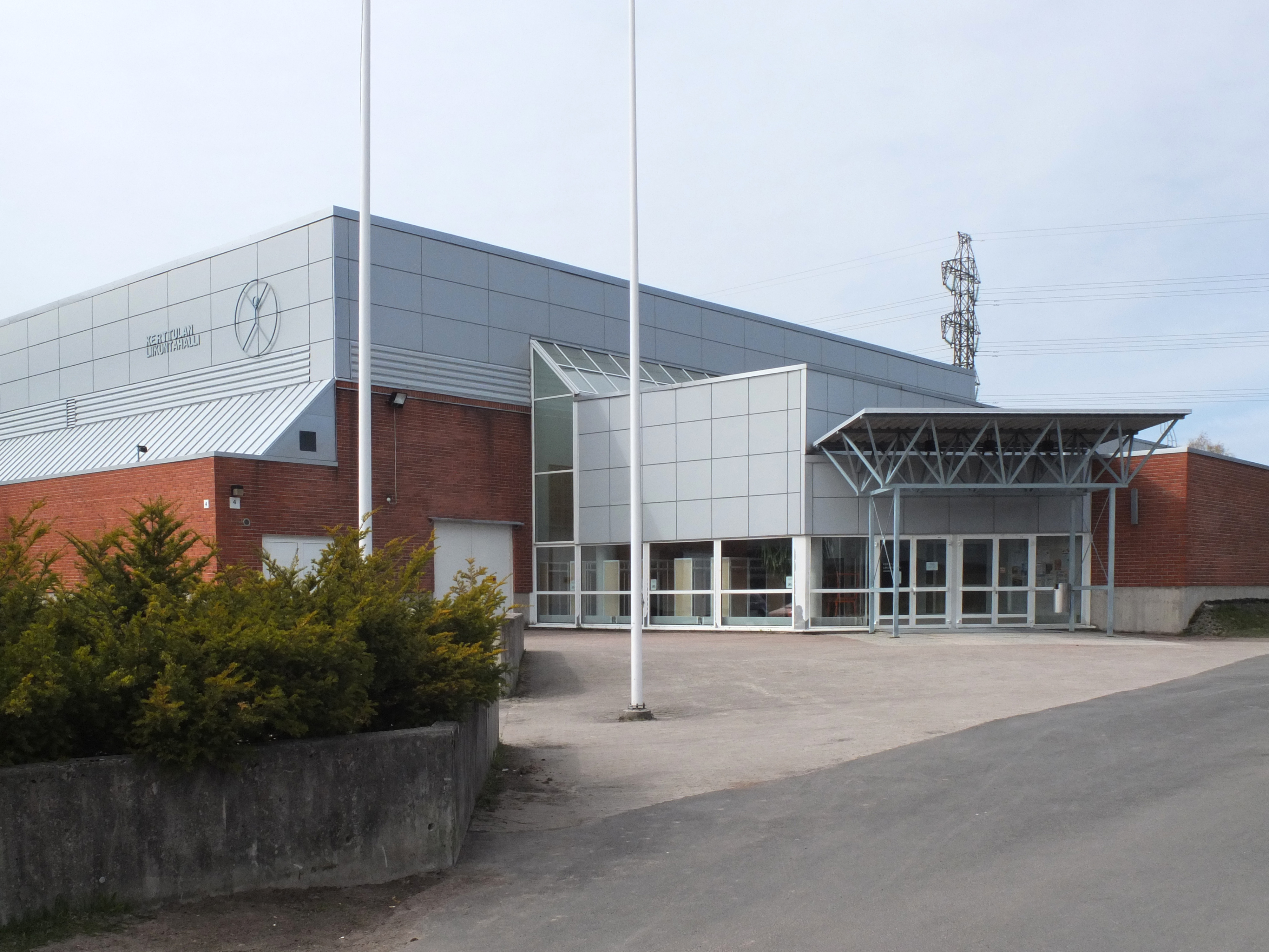 Kerttula sports centre in Kerttula, Raisio, Finland. May 2014.